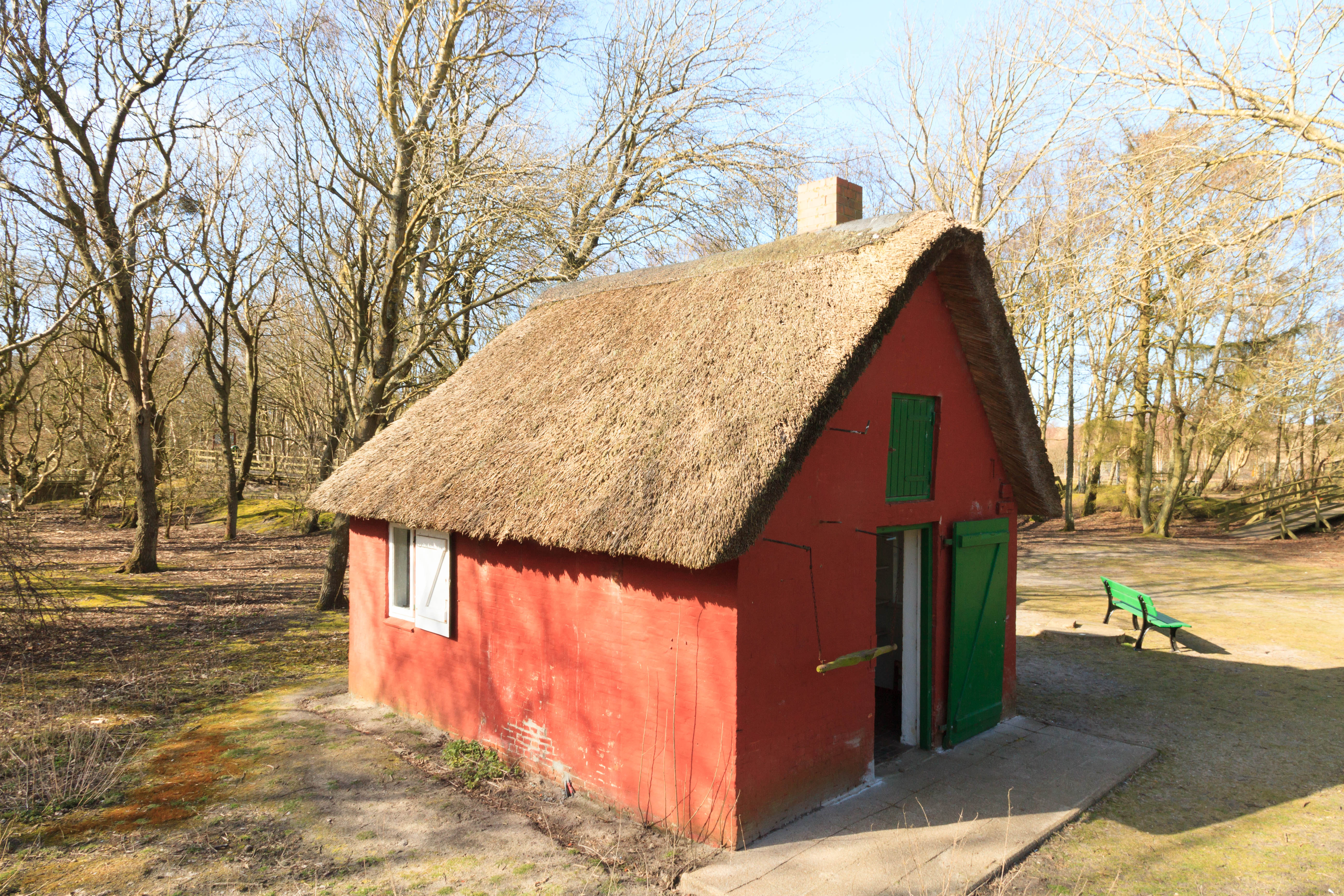 The making of this document was supported by the Community-Budget of Wikimedia Germany. Haus des Kojenwärters an der Vogelkoje